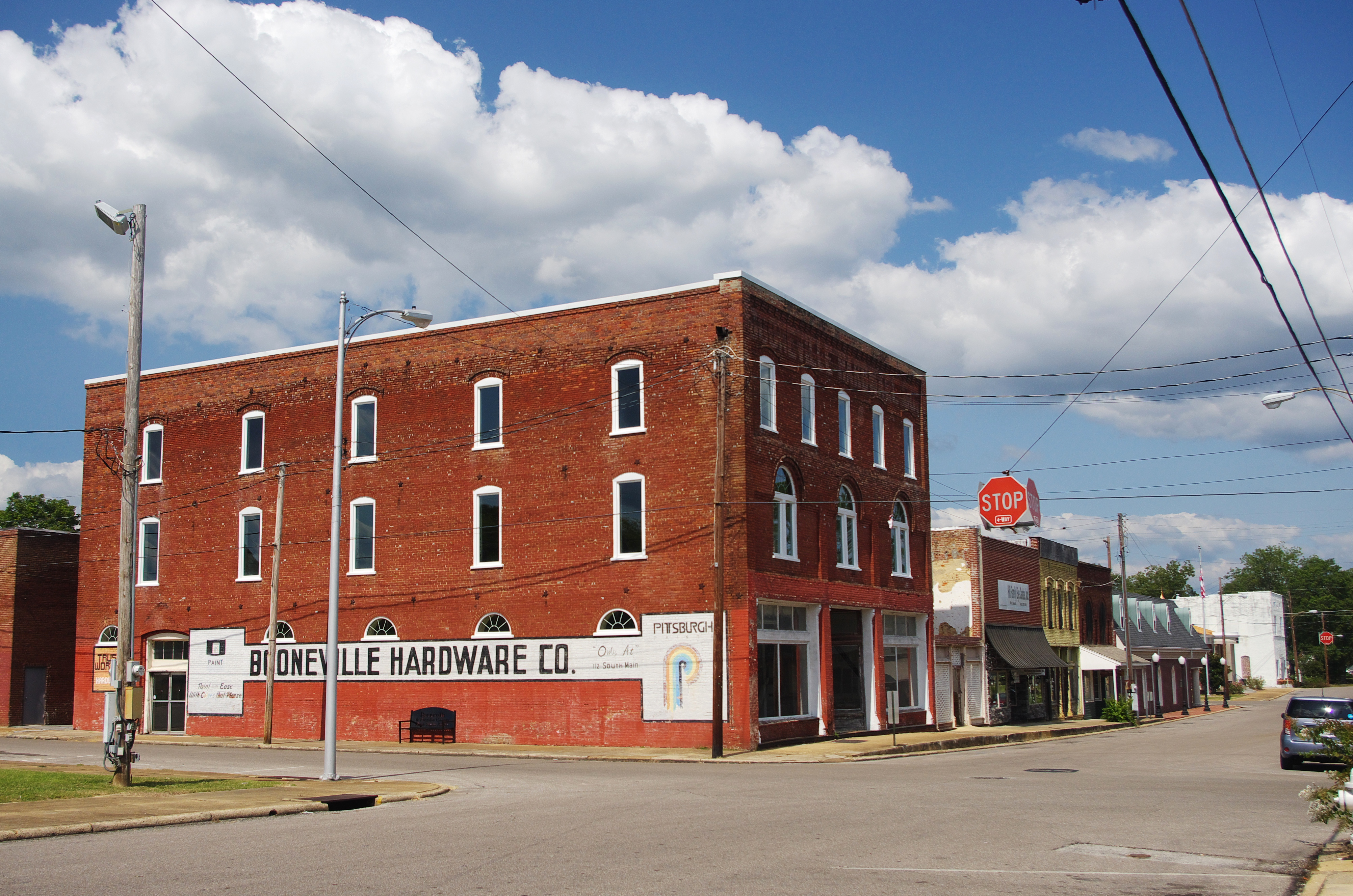 Booneville Hardware Company store along Main Street in Booneville, Mississippi, United States. This building is listed on the National Register of Historic Places as a contributing property in the Downtown Booneville Historic District.